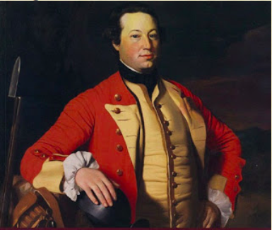 Major George Scott by John Singleton Copley